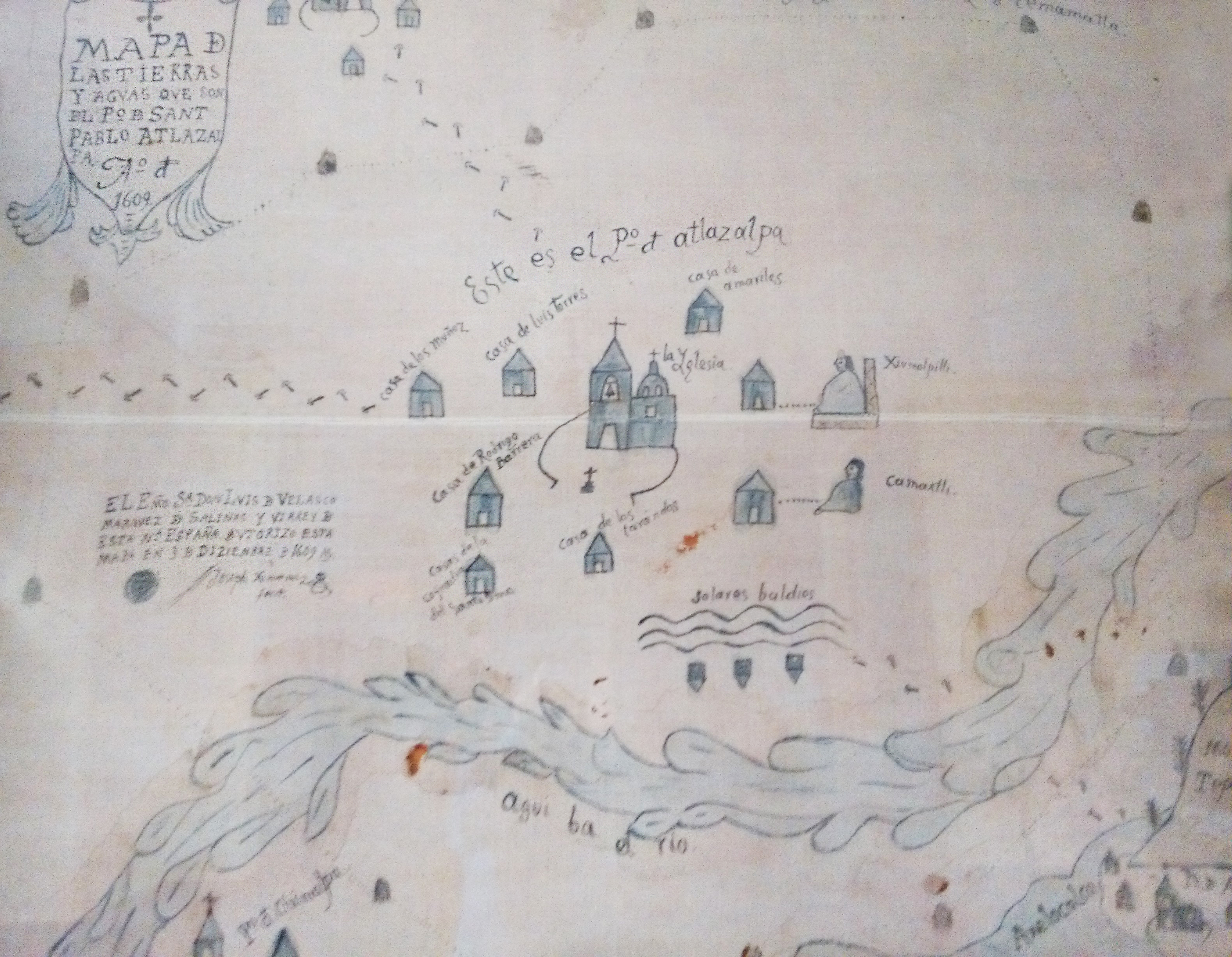 Map of San Pablo Atlazalpan, Mexico, made in 1906, authorized by Viceroy Luis de Velasco